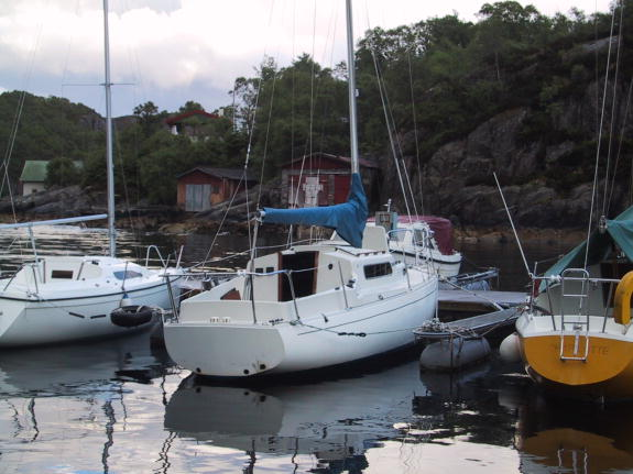 Albin Vega, seen from the rear (hull no. 2209)